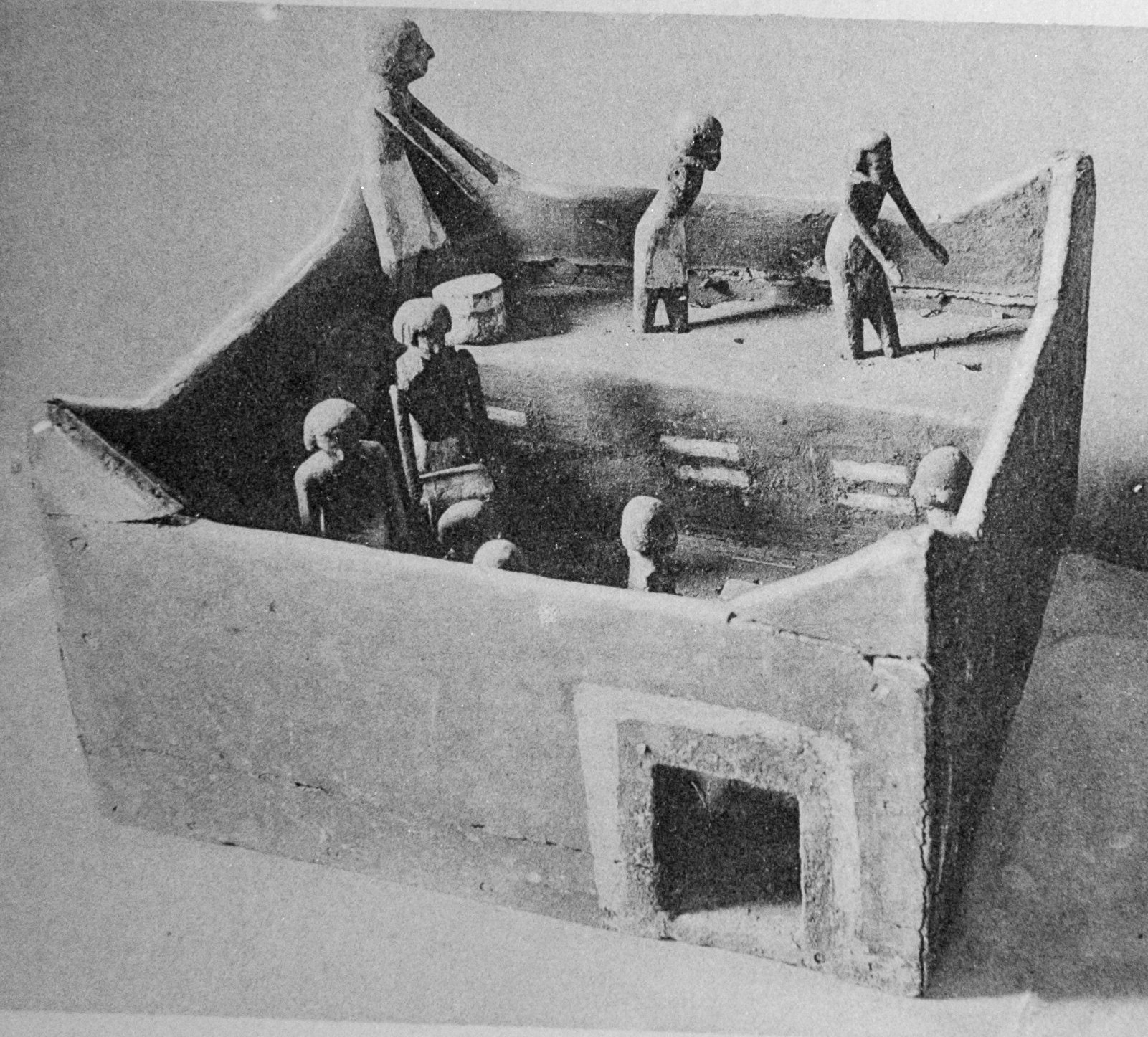 model of a granary, from the Mortuary Temple of Mentuhotep II. at Deir el-Bahari, Naville Tomb No. 3, today in: Yale Peabody Museum of Natural History, Inv. YPM 6743